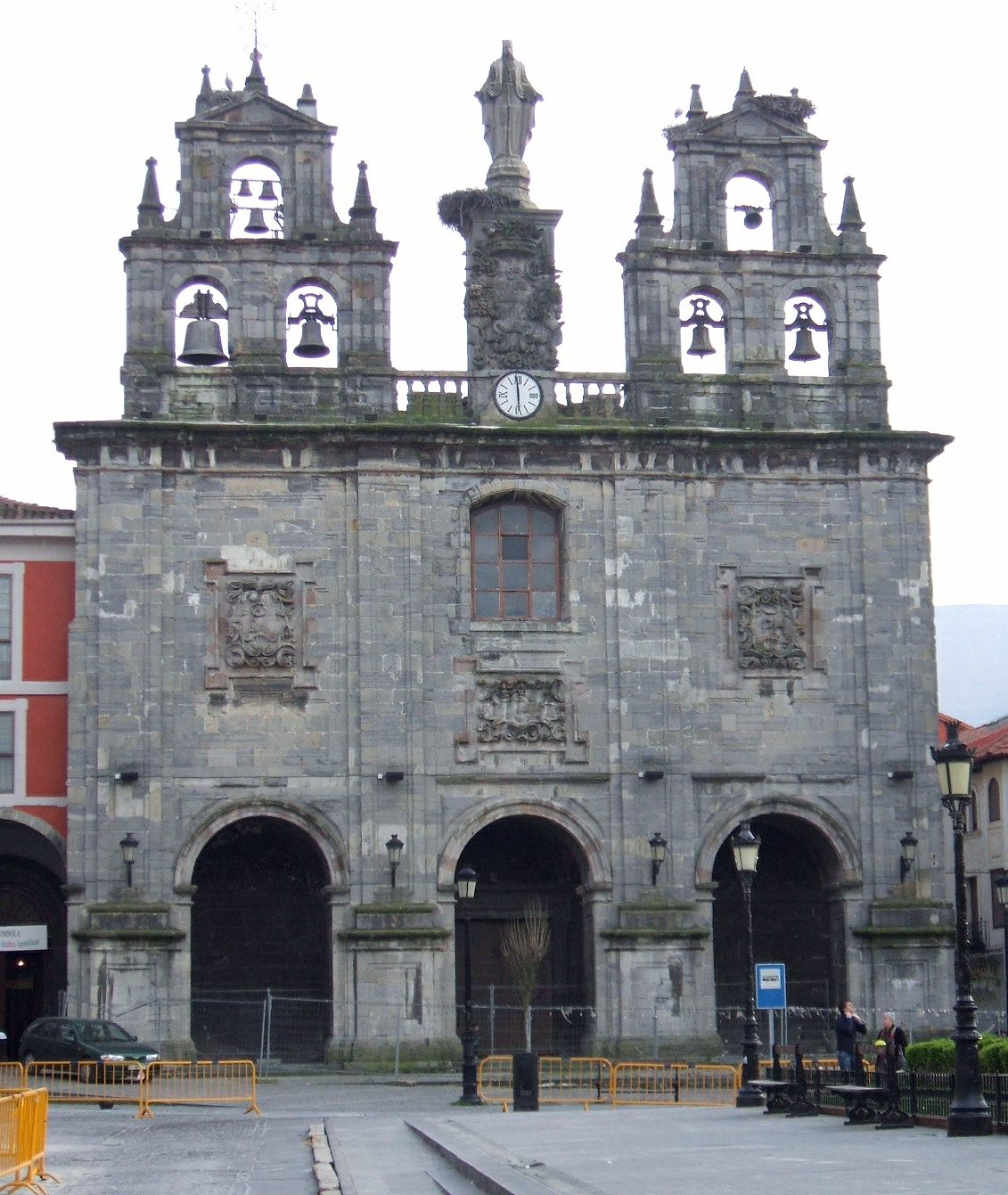 Iglesia de la Sagrada Familia, en Orduña (Vizcaya)